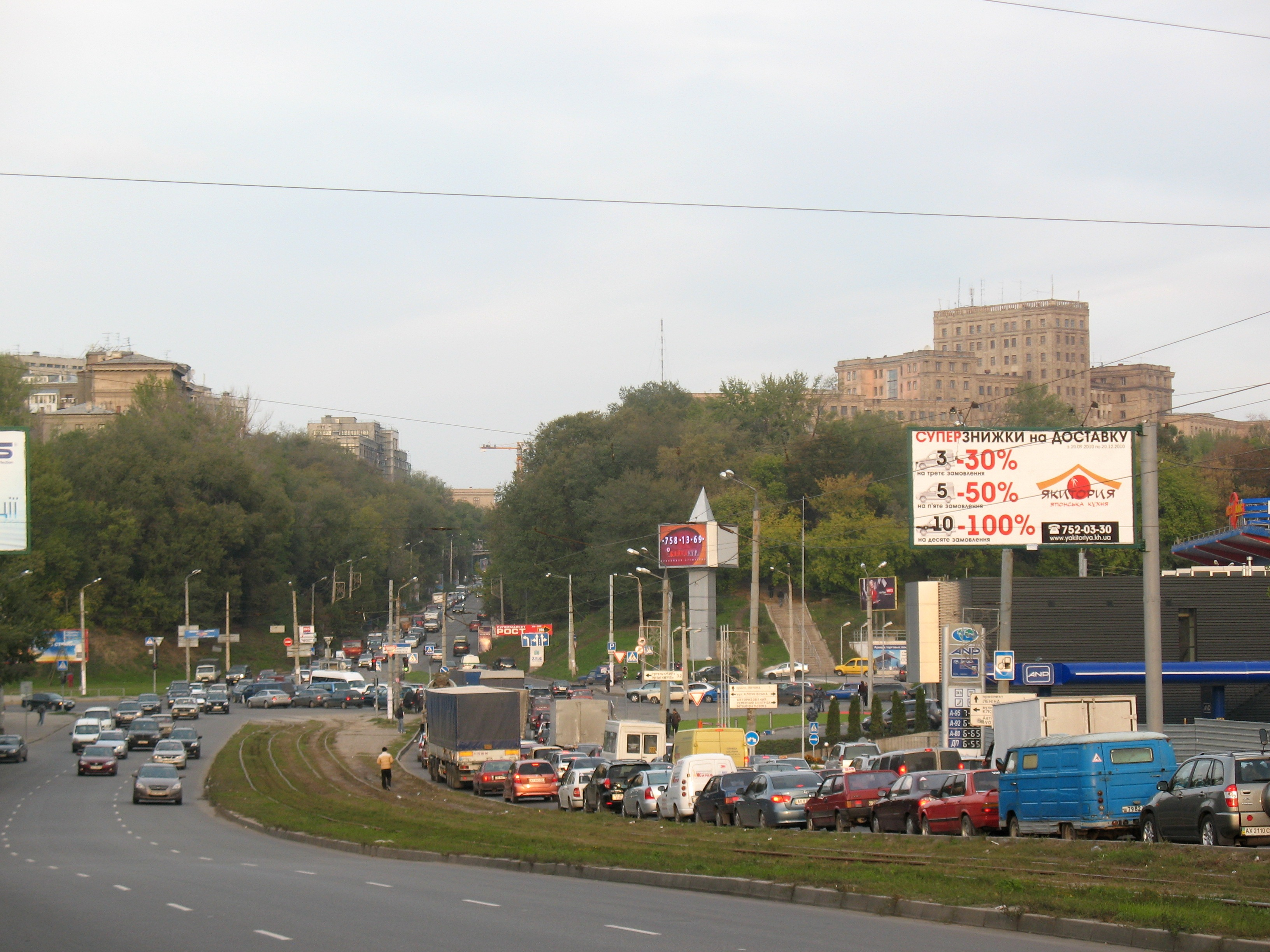 Kharkov. Passionaria Spusk.